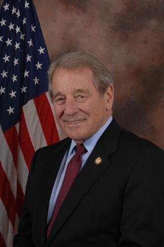 Rep. Ralph Regula (R - Ohio) official portrait